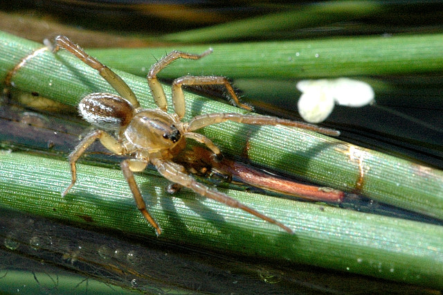 male Pirata piraticus from Commanster, Belgian High Ardennes .